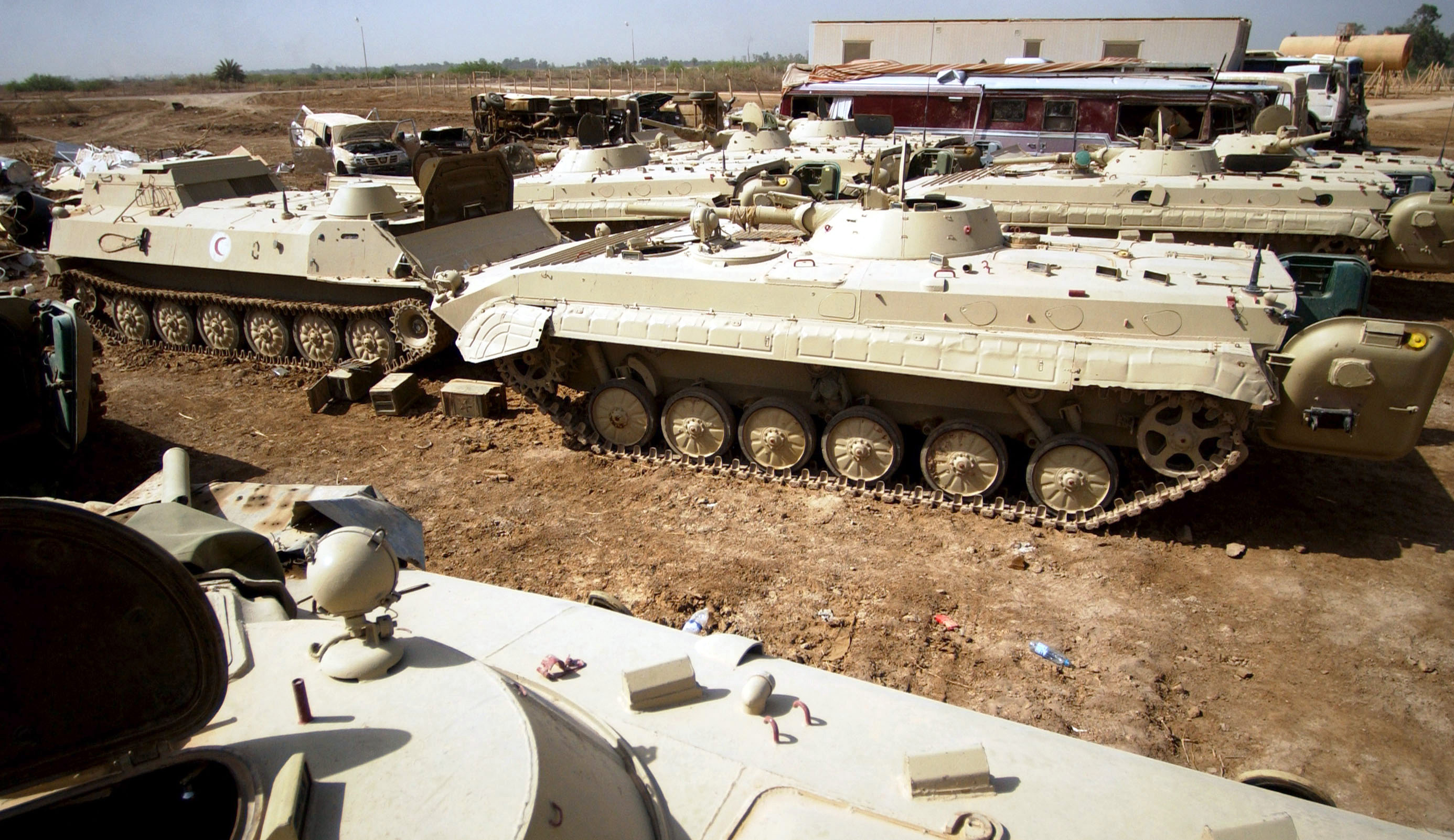 Seven captured Iraqi BMP-1 IFVs and an MT-LB-based armored ambulance at Baghdad International Airport (BIAP), Iraq, during Operation Iraq Freedom. US Air Force (USAF), Explosive Ordinance Disposal (EOD) units, are charged with the weapon systems for disposals.